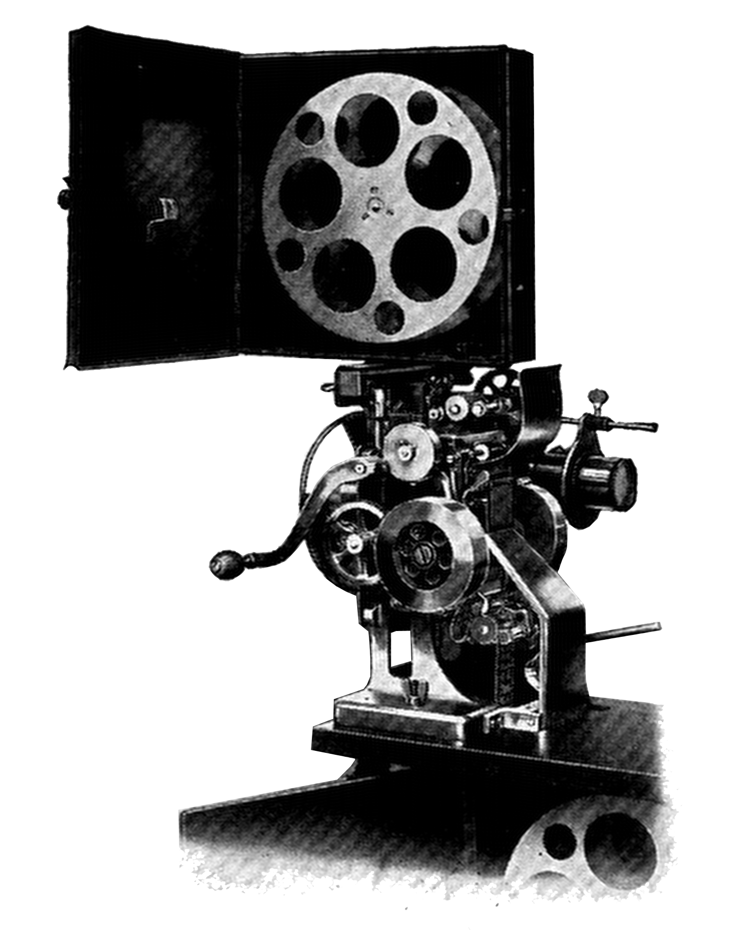 caption: "Fig. 233. Edison Kinetoscope Mechanism. The magazine doors are open showing the film reels. The film is in place ready to project."